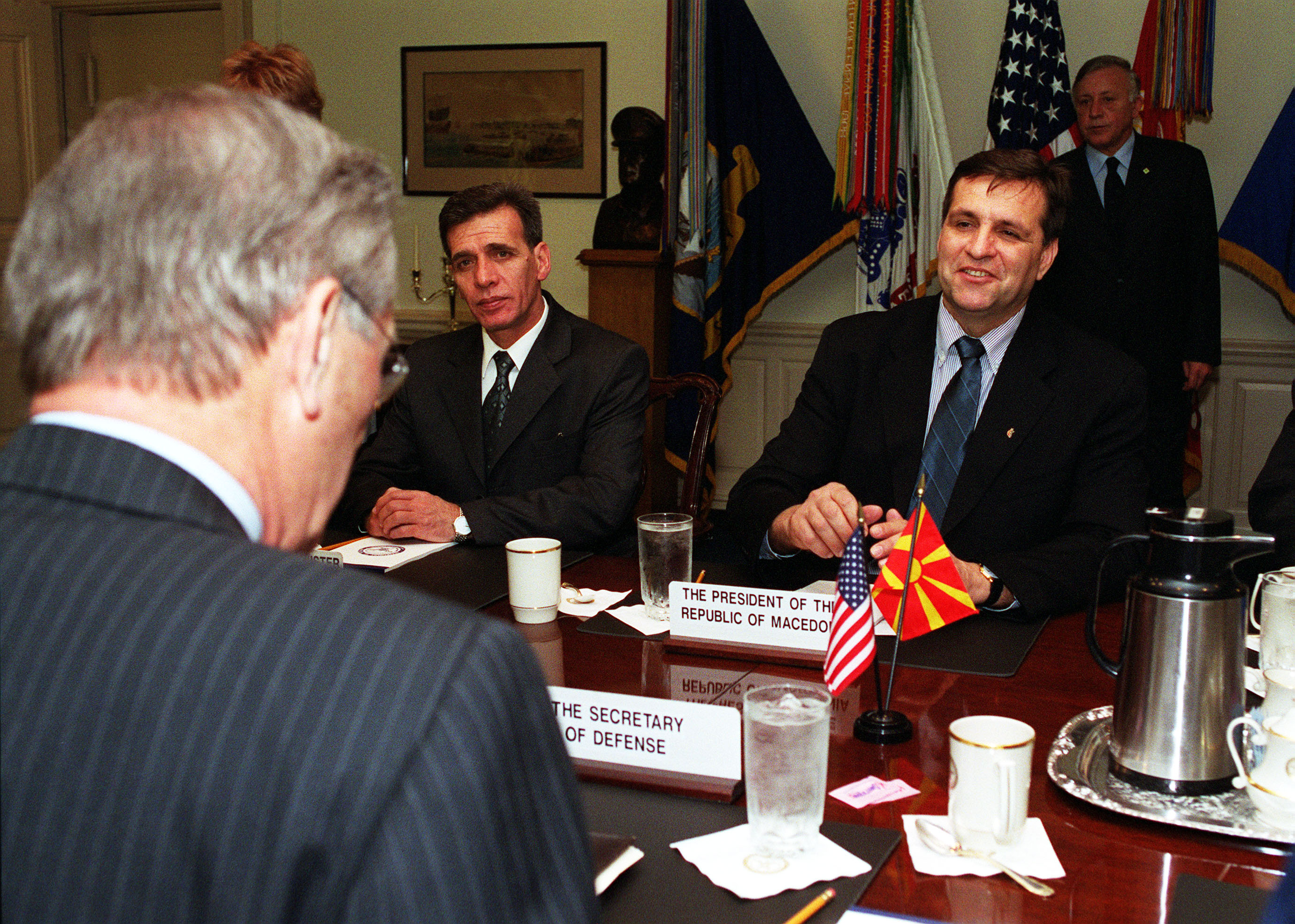 President Boris Trajkovski (right), of the Former Yugoslav Republic of Macedonia, meets with Secretary of Defense Donald H. Rumsfeld (left) at the Pentagon on May 2, 2001. Trajkovski and Rumsfeld, along with Macedonian Vice Prime Minister Bedredin Ibraimi (center), are meeting to discuss regional security issues of concern to both nations.